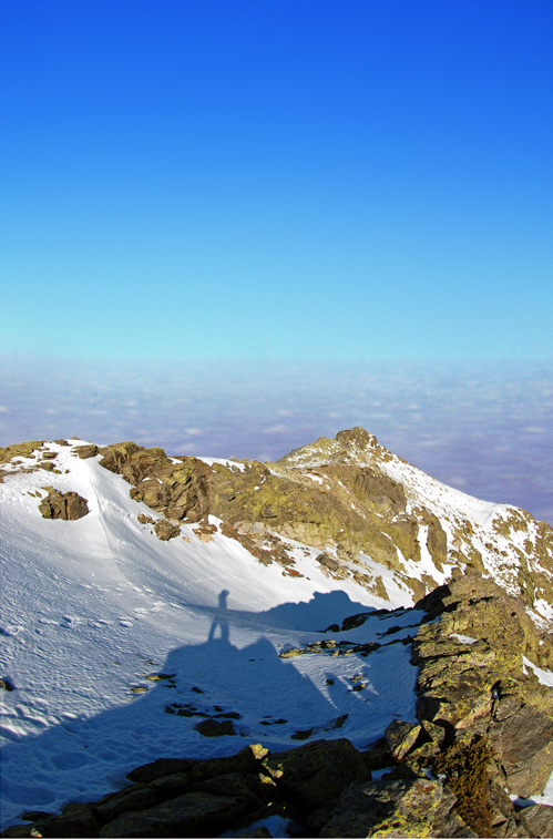 A view of el Risco de los Claveles from the Peñalara Peak.